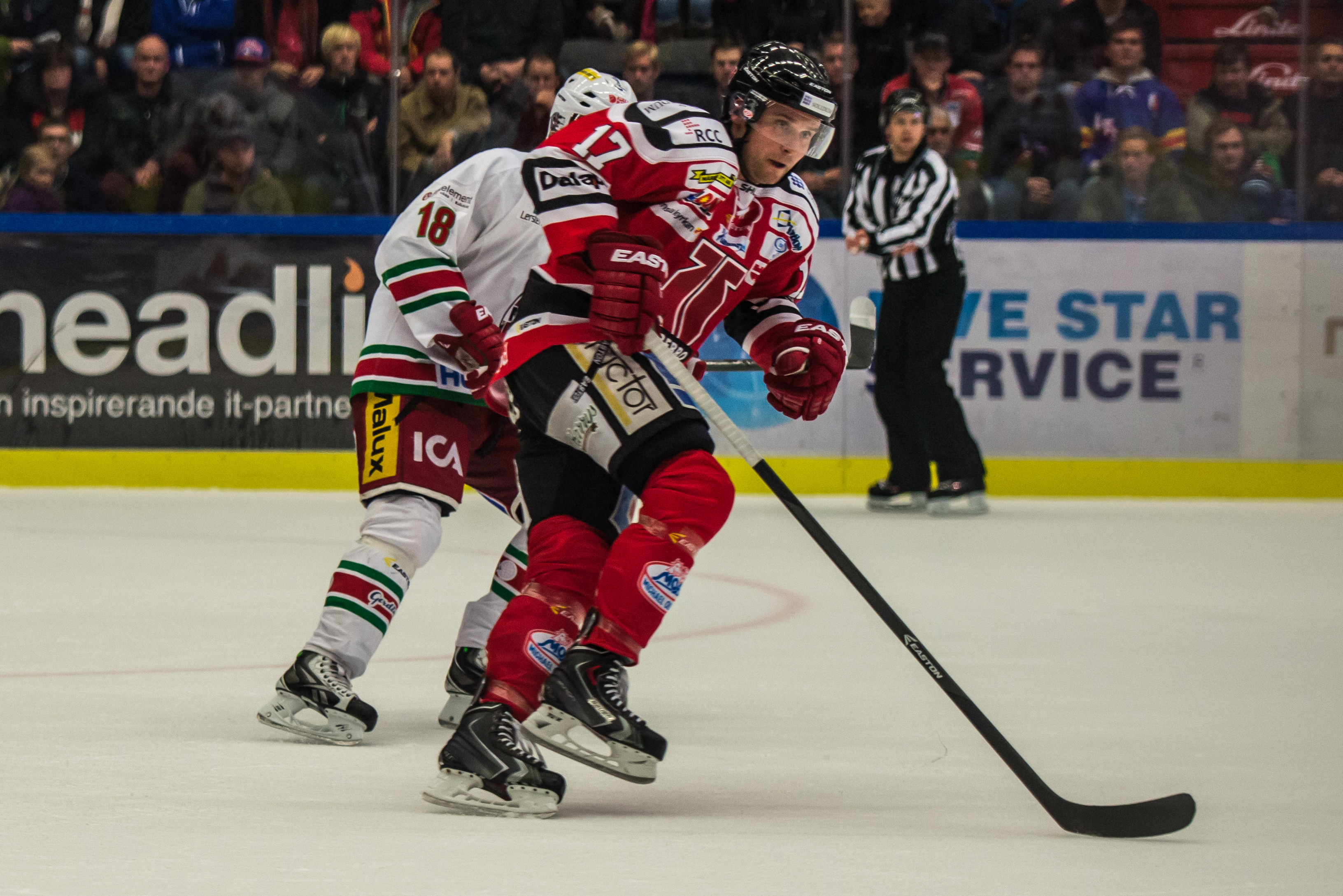 Ben Walter playing for Örebro HK in SHL (Sweden's highest league) against MODO Hockey in Behrn Arena 2013-10-05. MODO player Mattias Ritola behind.